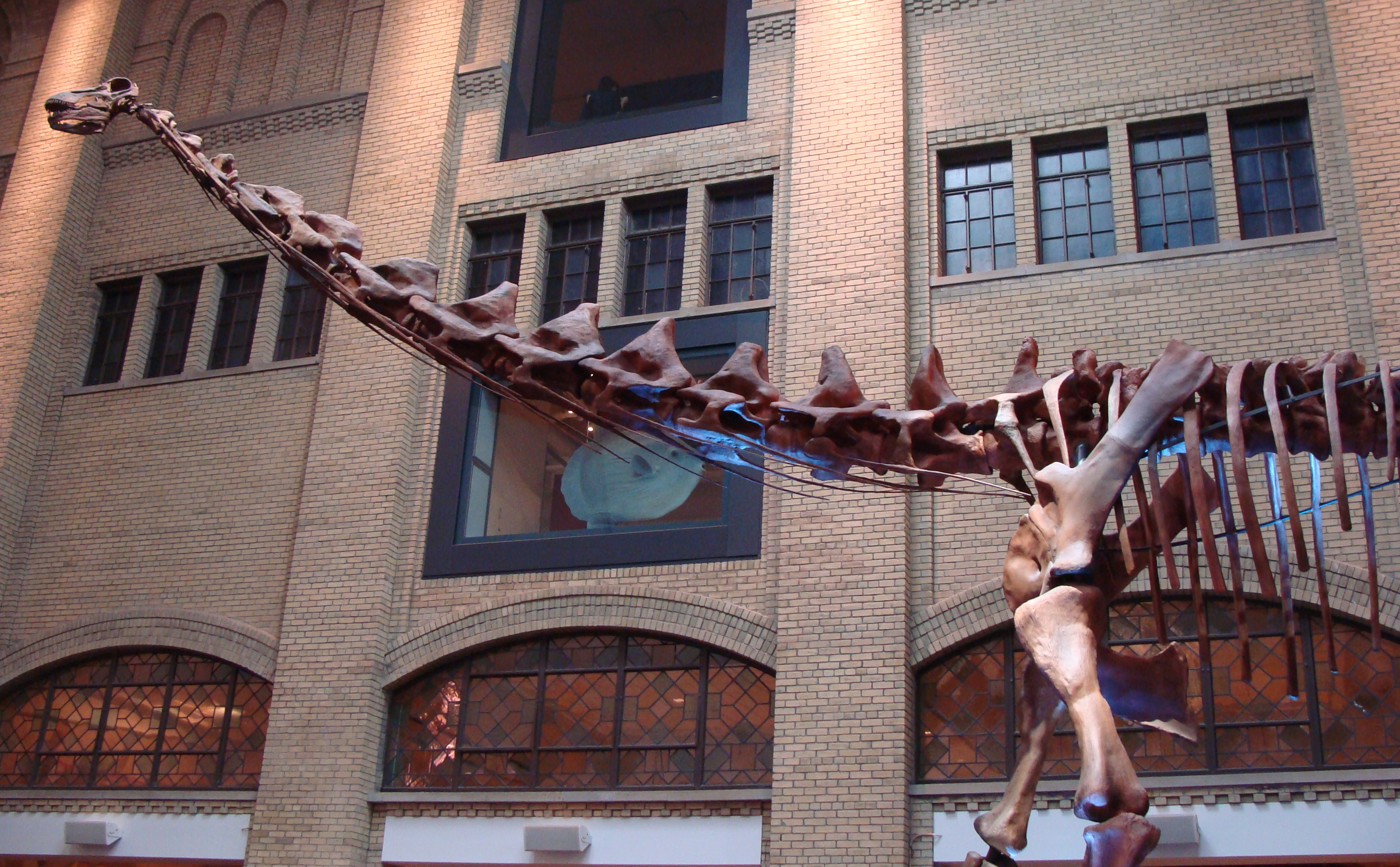 Futalognkosaurus on display at the Royal Ontario Museu, Toronto, Canada.